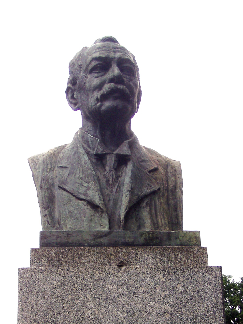 Bust of Josef Pekař in Turnov by sculptor Josef Drahoňovský